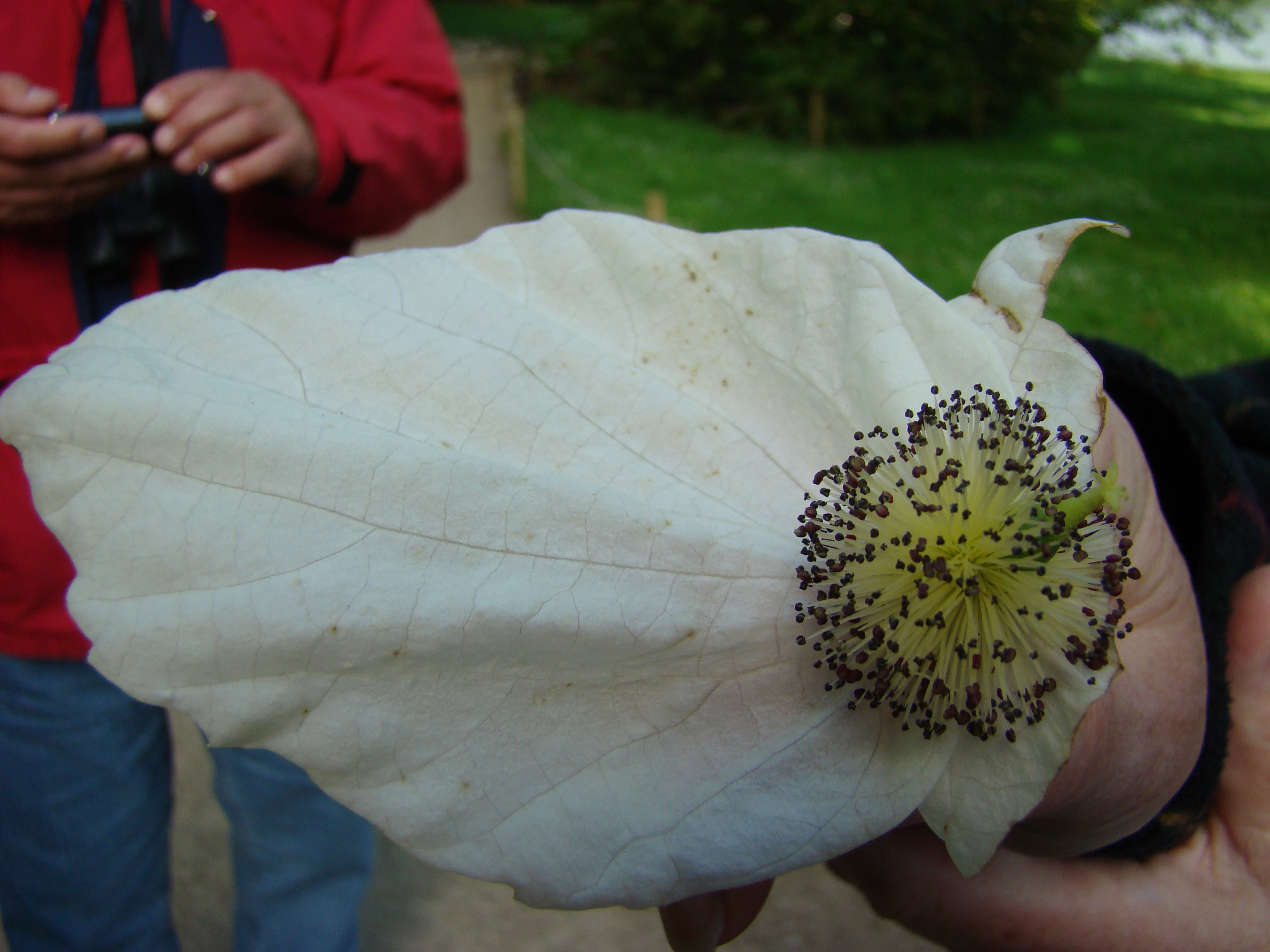 Lovely specimen of Dove (Handkerchief) Tree located at Stourhead Gardens, Wiltshire, England - showing flower size relative to a man's hand